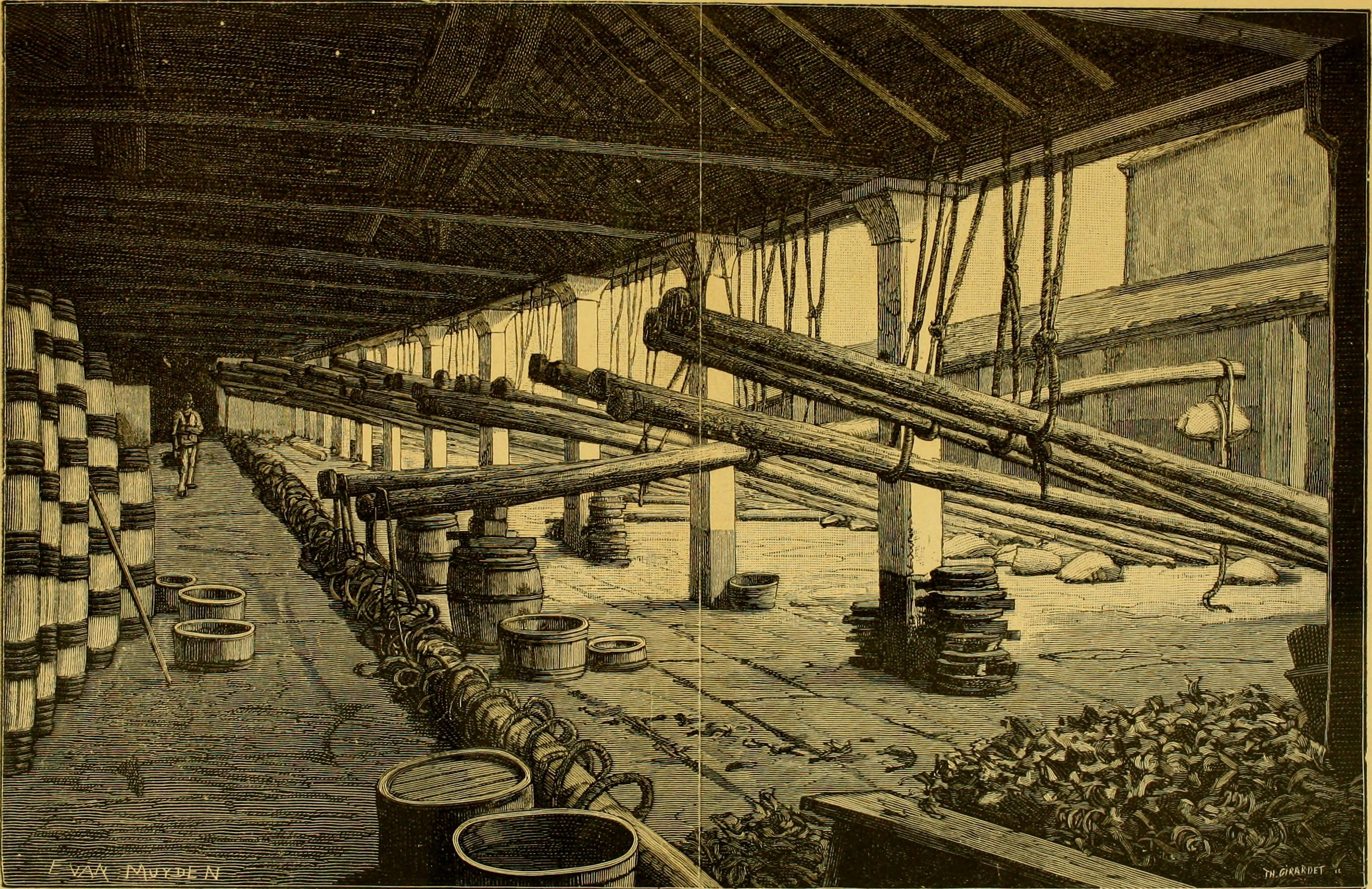 Title: Anales de la Sociedad Espala de Historia Natural Year: 1891 (1890s) Authors: Sociedad Espala de Historia Natural Subjects: Natural history Publisher: Madrid : La Sociedad Text Appearing Before Image: Anales de la Soc. Española de n. Láni. IV. Text Appearing After Image: PRENSAS DE SARDINAS EN CORUÑA.